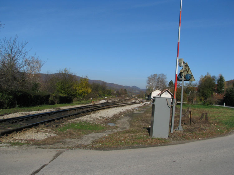 Budinščina train station